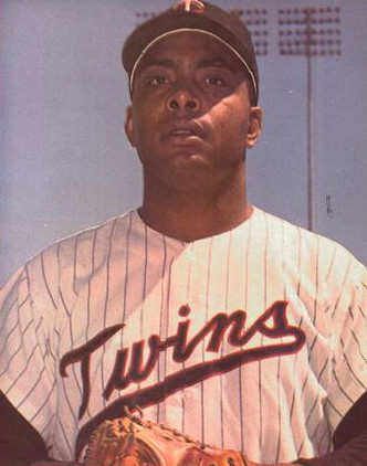 Professional baseball player Earl Battey